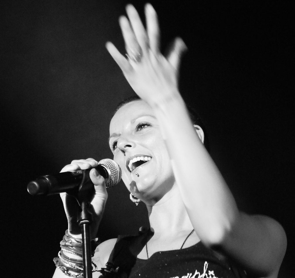 Lamari in a concert in Sitges, "Con otro aire" tour